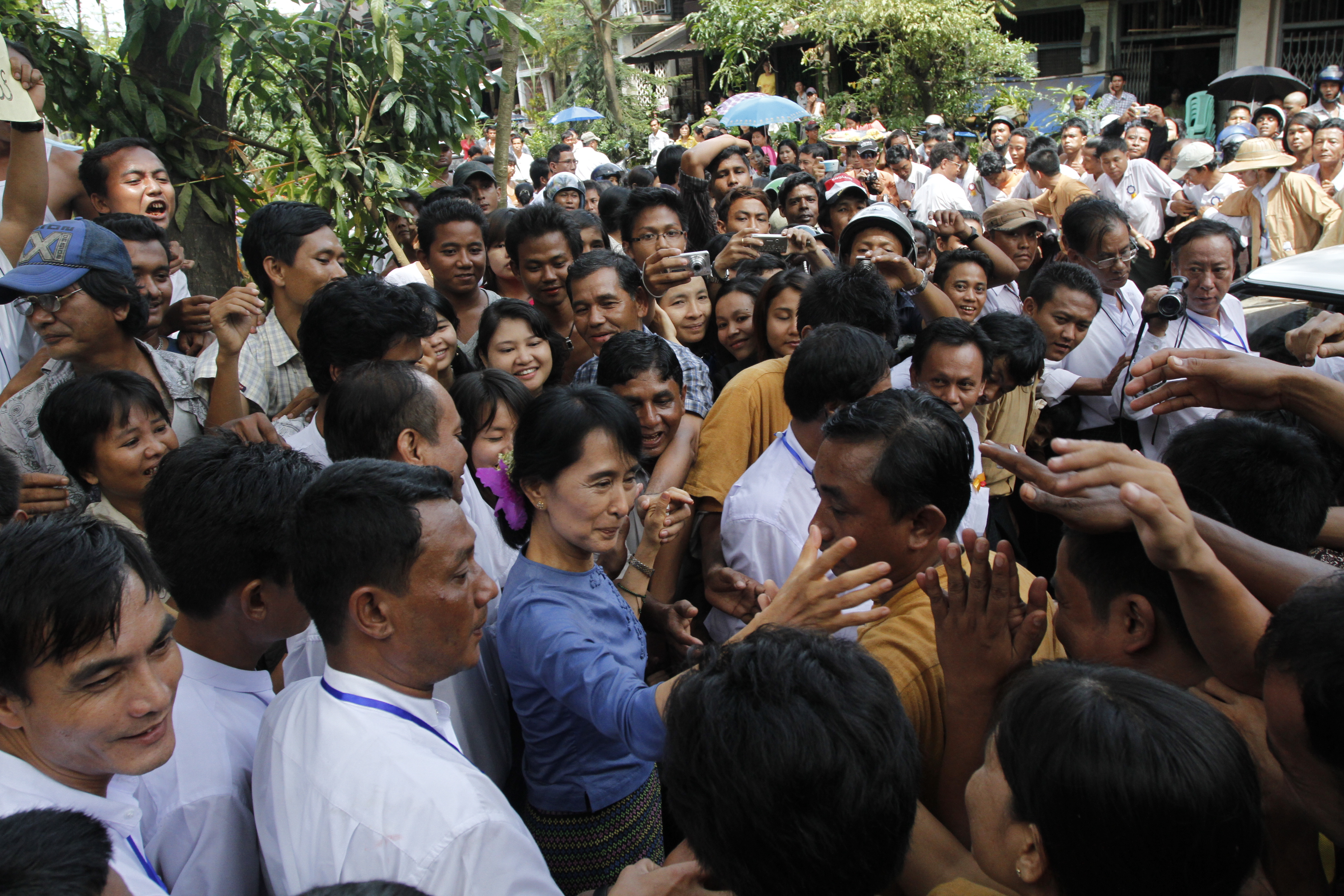 Aung San Suu Kyi greeting supporters from Bago Region on 14 August 2011.မြန်မာဘာသာ: အမျိုးသားဒီမိုကရေစီအဖွဲ့ချုပ်ခေါင်းဆောင် ဒေါ်အောင်ဆန်းစုကြည် ပဲခူးတိုင်းဒေသကြီးတွင် ၁၀၁၁ ခုနှစ် ဩဂုတ်လ ၁၄ ရက် အားပေးကြသည့်ပြည်သူများ နှုတ်ဆက်စဉ်